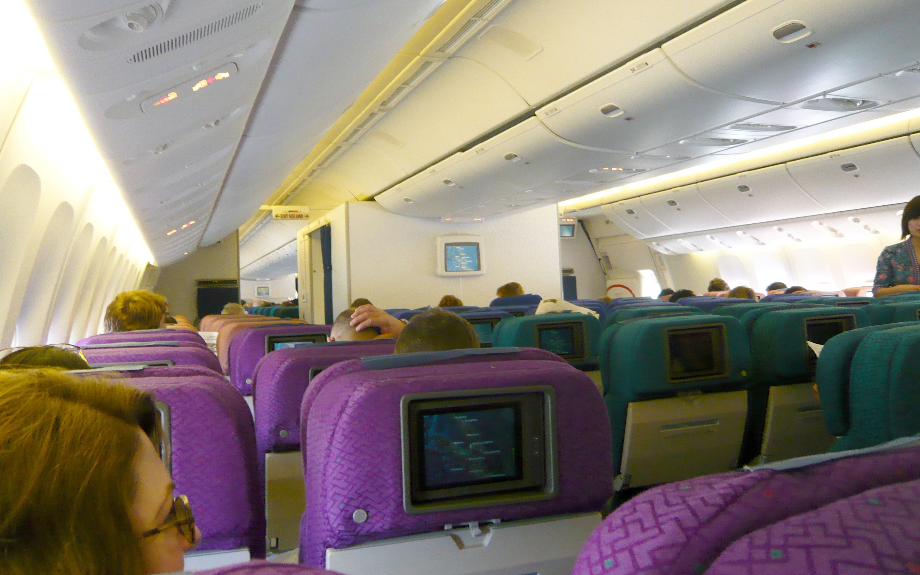 Malaysia Airlines B777 interior